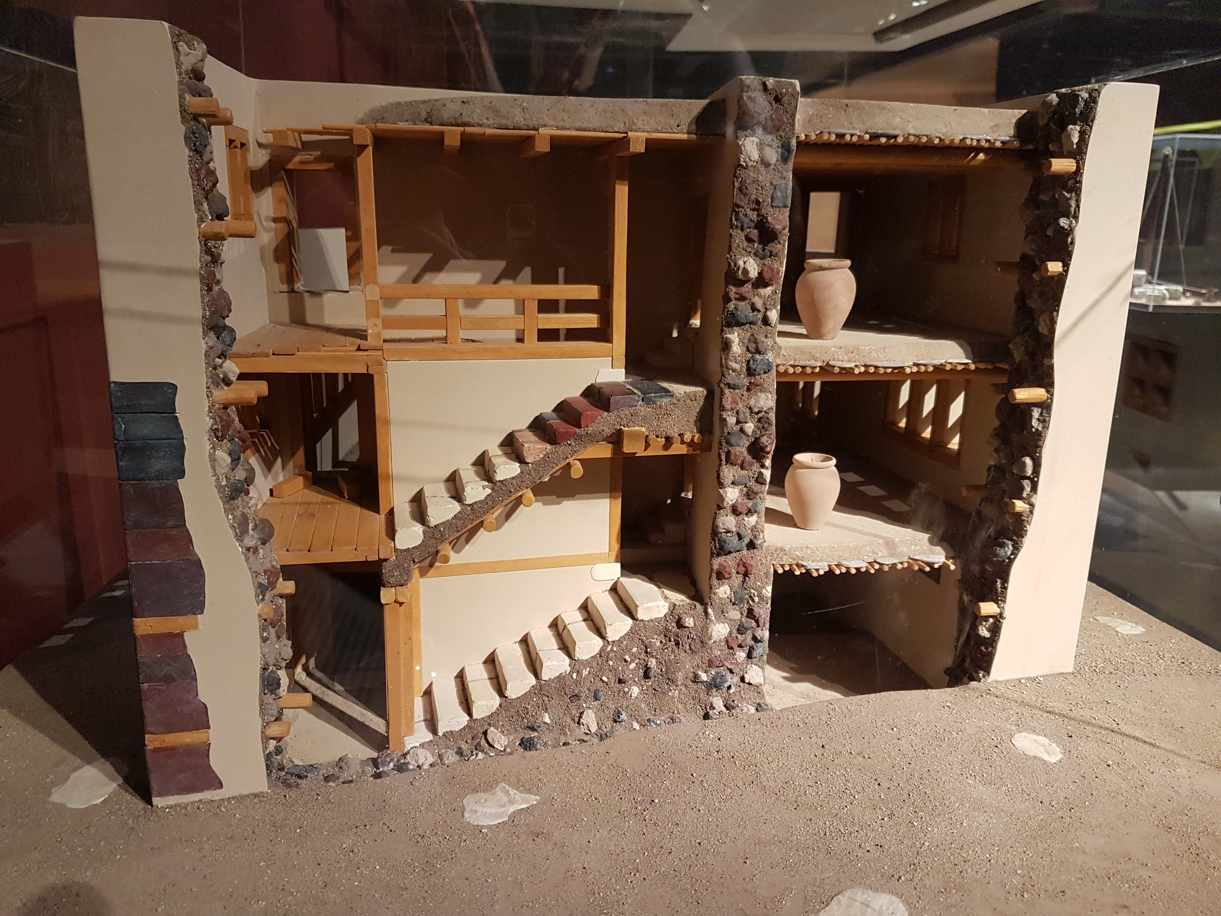 Prehistoric house at Akrotiri, Thera, Greece, 16th century BC (model). Thessaloniki Technology Museum